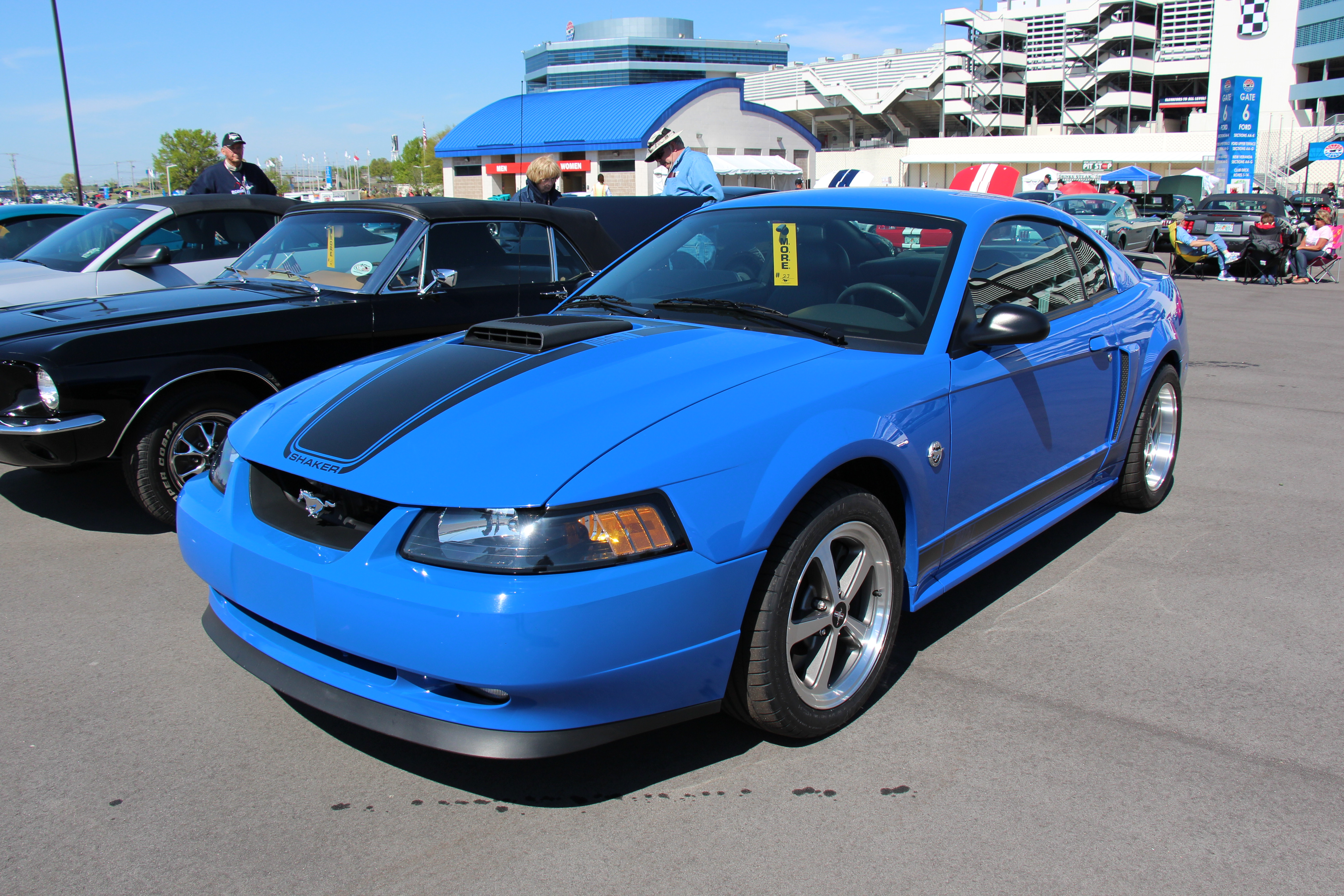 Azure Blue. An all new 4th generation Mustang, the SN-95, was introduced in 1994, the notchback and hatchback were gone, replaced by a swoopier style coupe, a convertible was also available. The 1999 facelift saw a tougher look with sharper contours. The base model got the 3.8 V6 and the GT, the 260hp modular 4.6. Also available was the high performance SVT Cobra, 240hp 5.0 V8. The Mach 1 was introduced in 2003, it got 305 hp and revised suspension, Shaker scoop, Mach1 decals set the hood, chin spoiler, rear-spoiler, Magnum 500 style wheels, and a redesigned C-pillar Photographed at the 50th Anniversary of the Mustang celebrations at the Charlotte Motor Speedway, April 2014